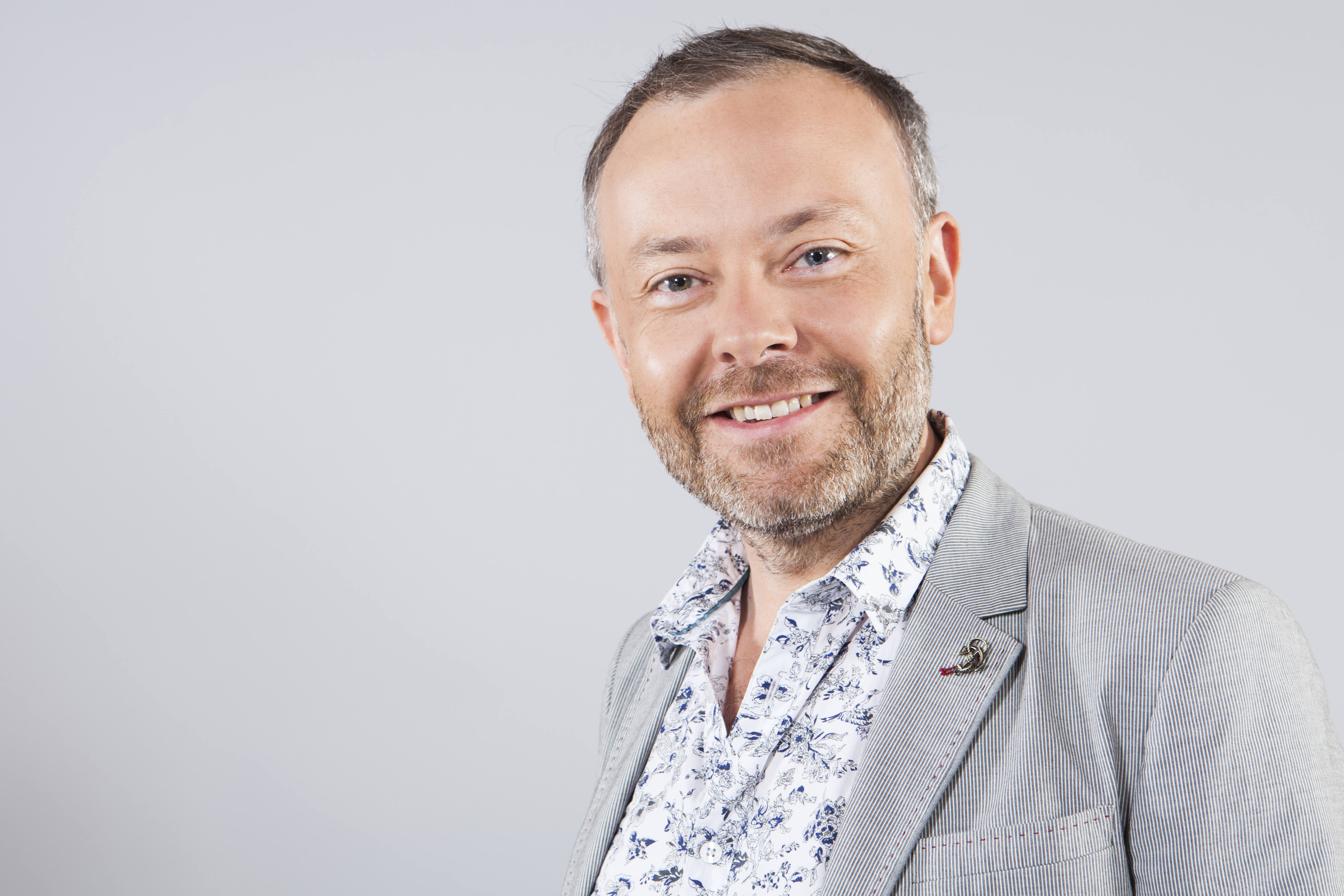 Broadcaster Rick O'Shea, newer photo